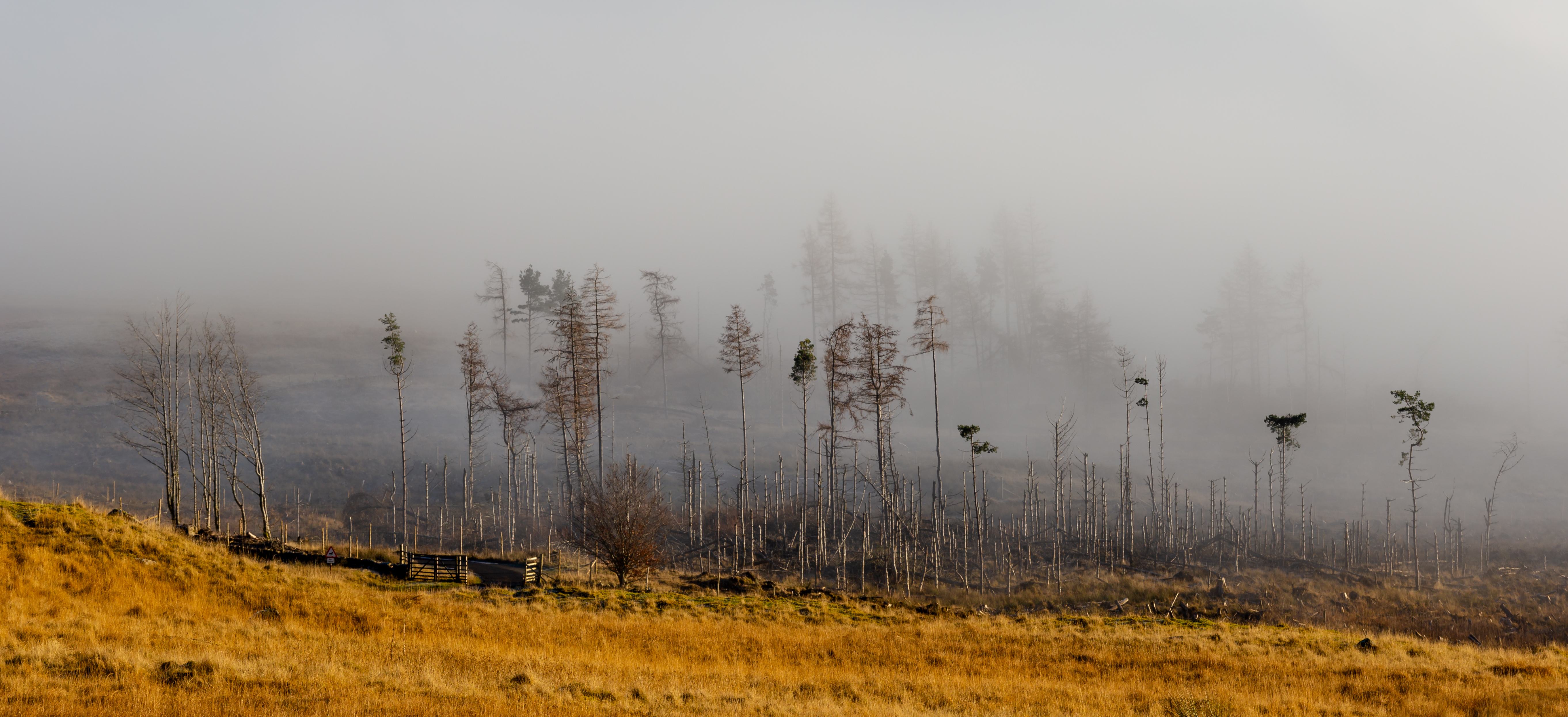 Trees in fog on the northern side of Loch Tay, Scottish Highlands, Scotland